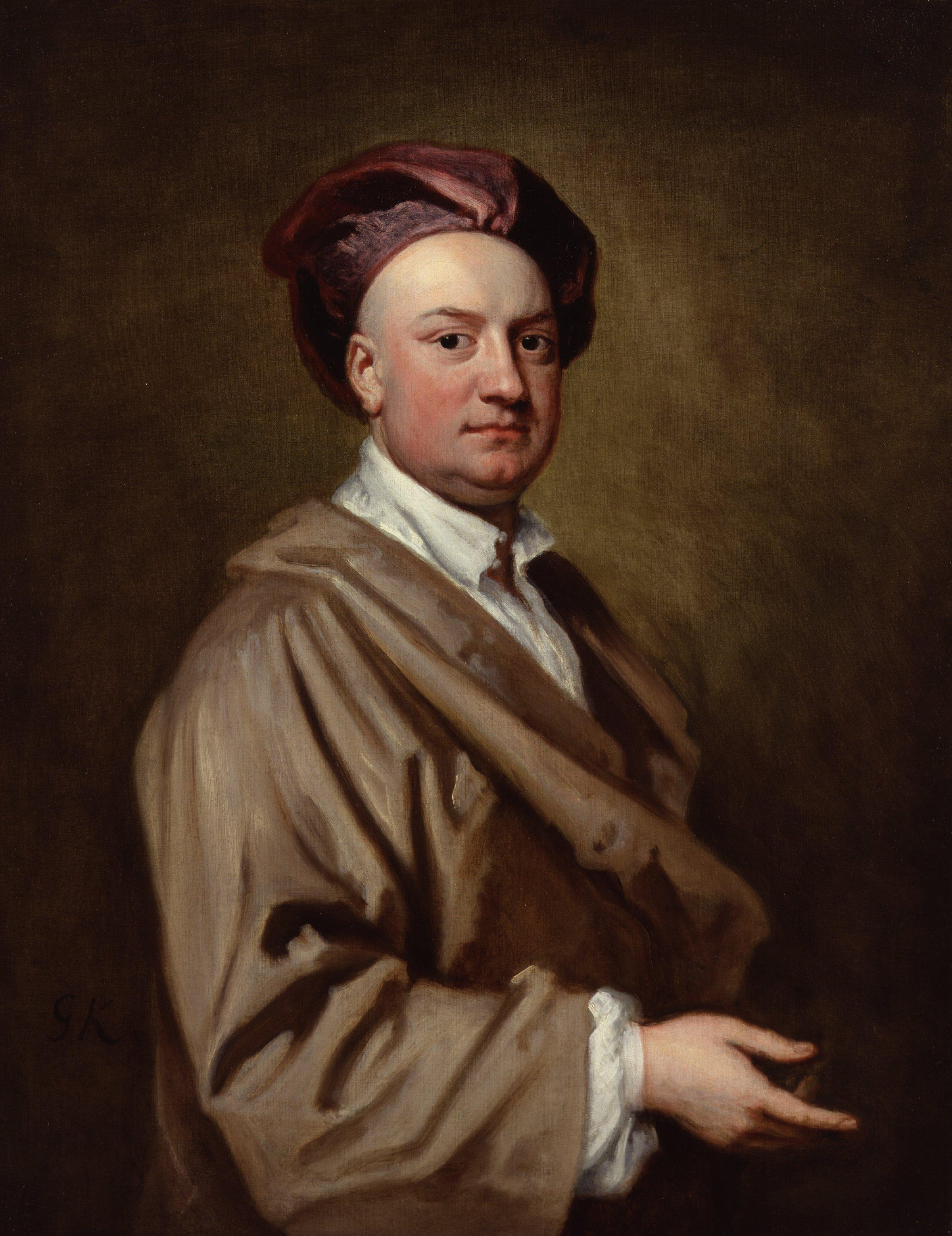 Jacob Tonson II, by Sir Godfrey Kneller, Bt (died 1723), given to the National Portrait Gallery, London in 1959. All images in this batch have been confirmed as author died before 1939 according to the official death date listed by the NPG.